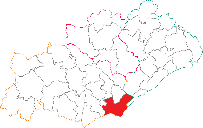 Situation du canton d'Agde dans le département de l'Hérault